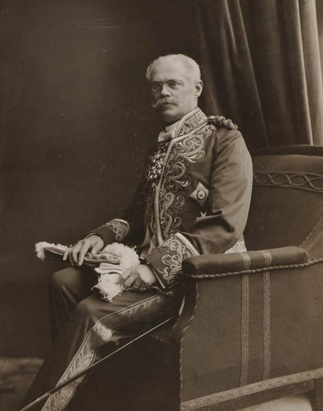 Kurt von Dewitz ca. 1906/1907